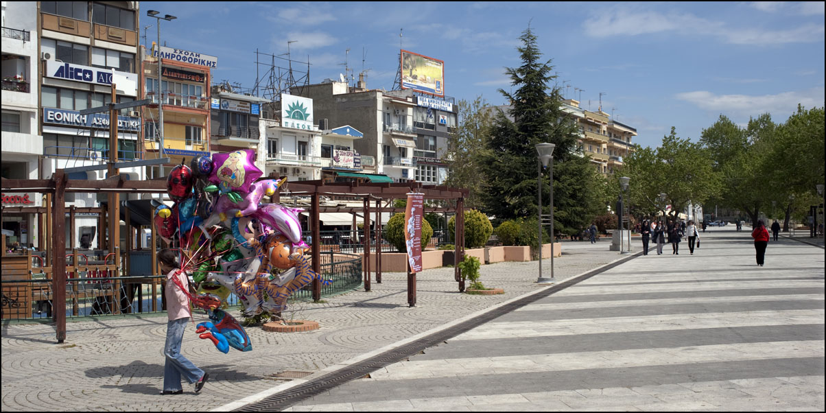 Komotini (Gümülcine), Greece. View of the main square (center) of Komotini.